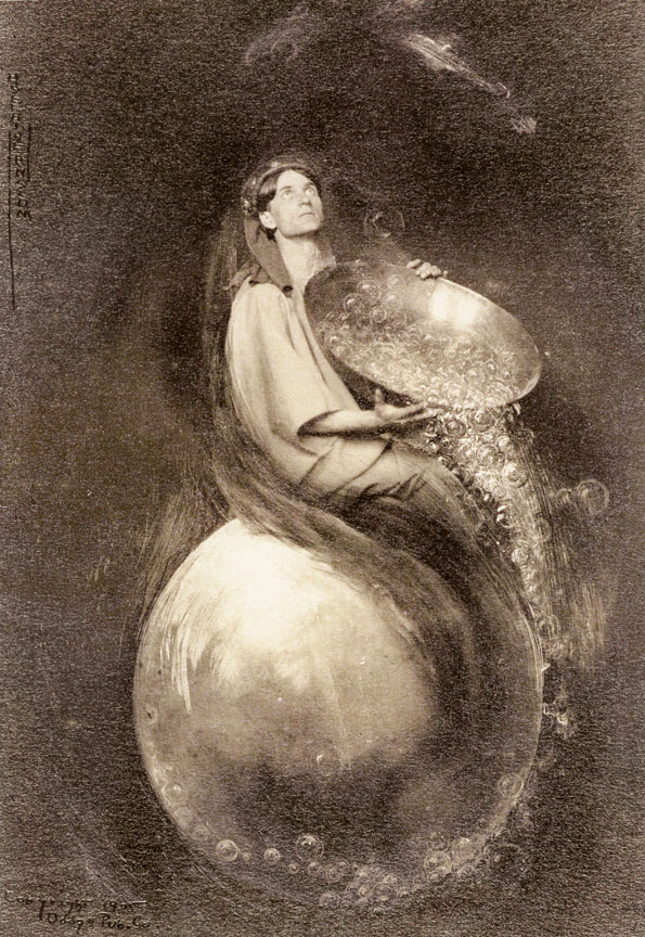 The Eternal Saki, Rubaiyat Quatinrain XLVI